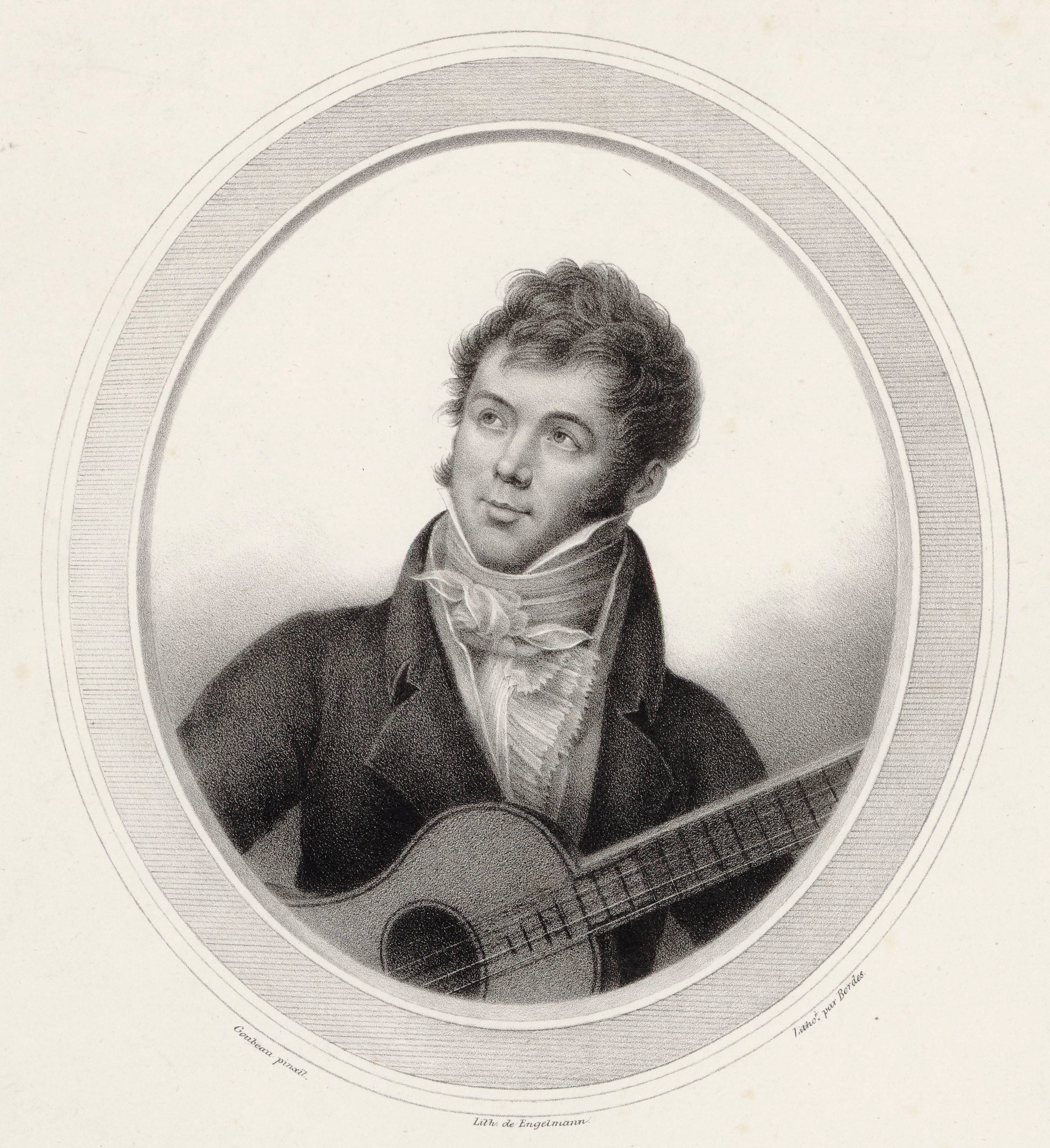 Depicted person: Fernando Sor